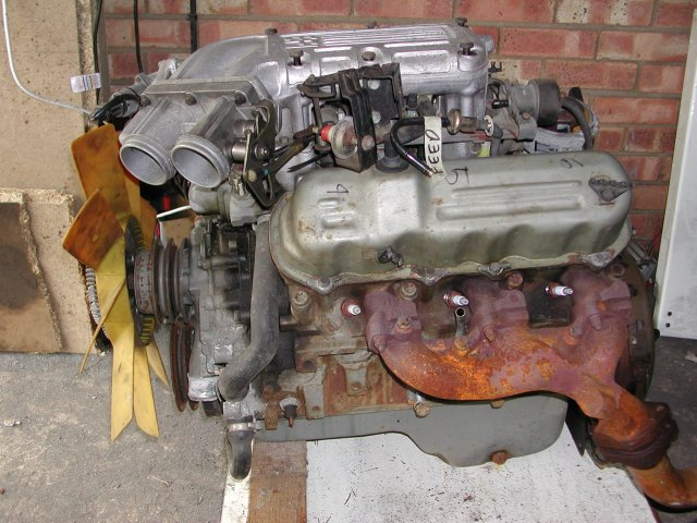 Ford Cologne V6 engine from the left hand side. This is a 2.9 model, photographed by Stephen Gusterson, uploaded to Wikipedia by User:Morven. Permission letter follows: From: steve gusterson To: Matt Brown Date: Sun, 29 Aug 2004 13:53:58 +0100 Subject: RE: Pictures of Ford "Cologne" V6 Hi no problems - you can use the pictures. be nice to see it on wikipedia cheers steve